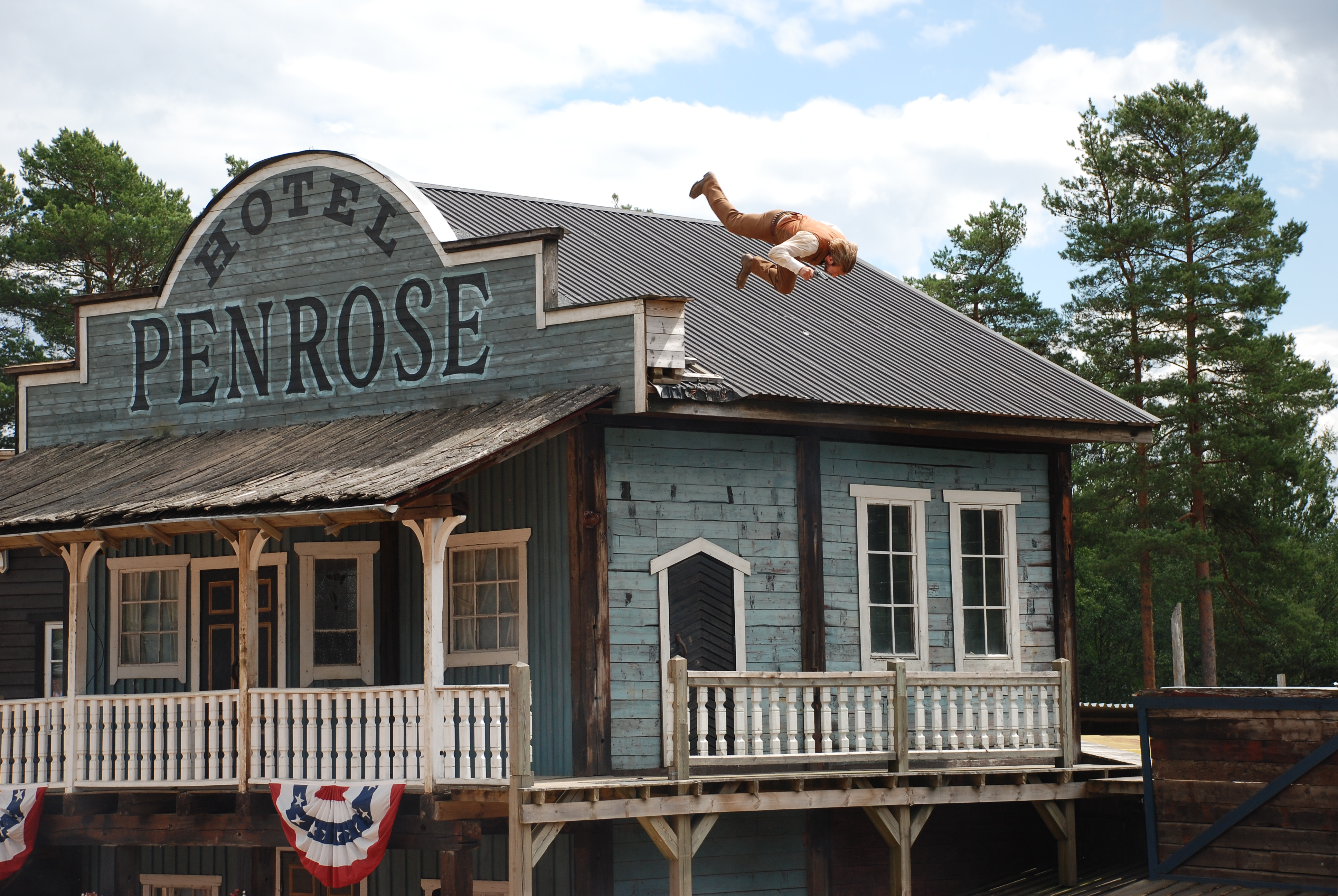 Stunt during Western show at the High Chaparral theme park in Småland